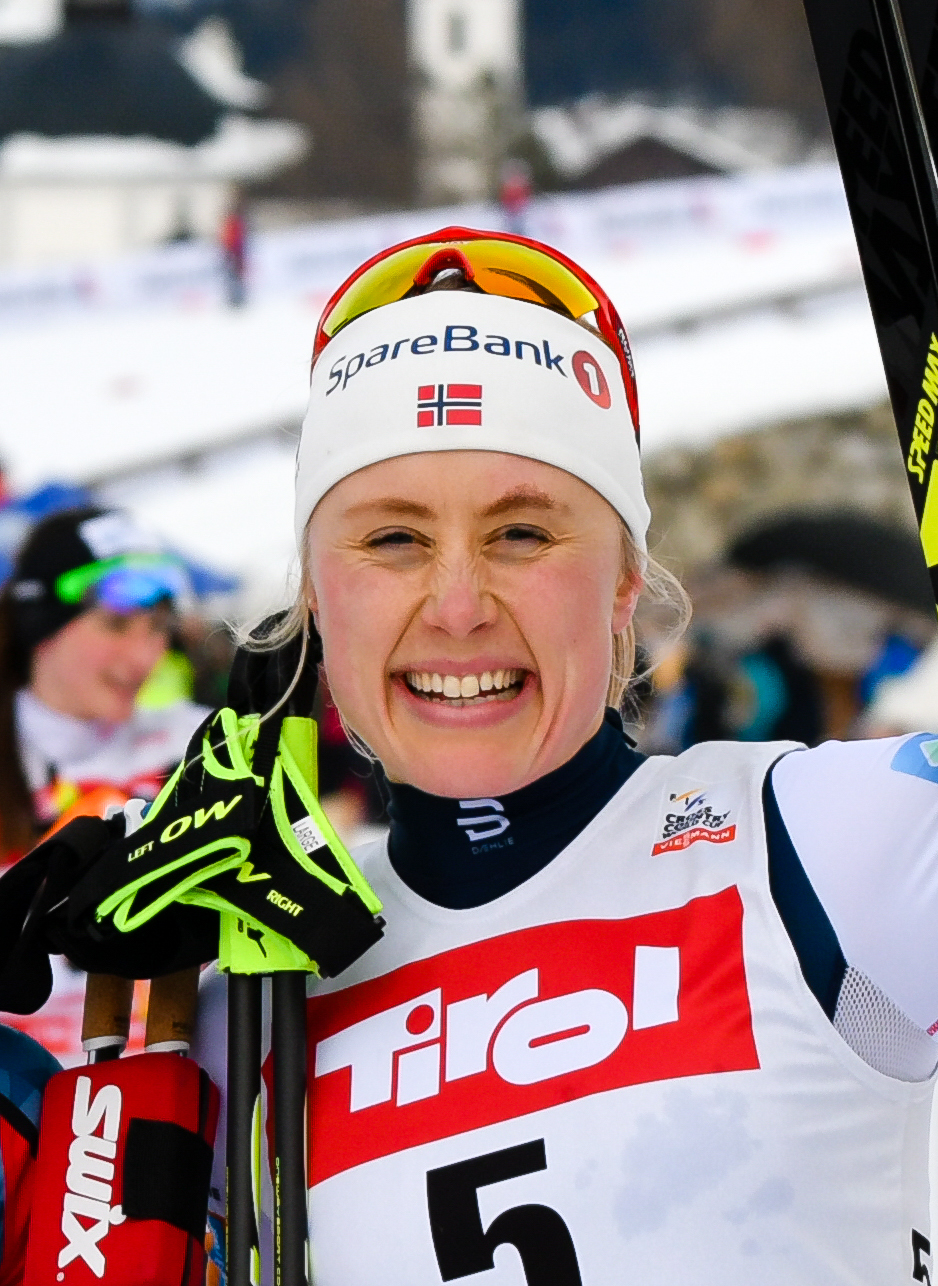 Seefeld-Triple 2018, third day January 28th. Picture shows HAGA Ragnhild (NOR).